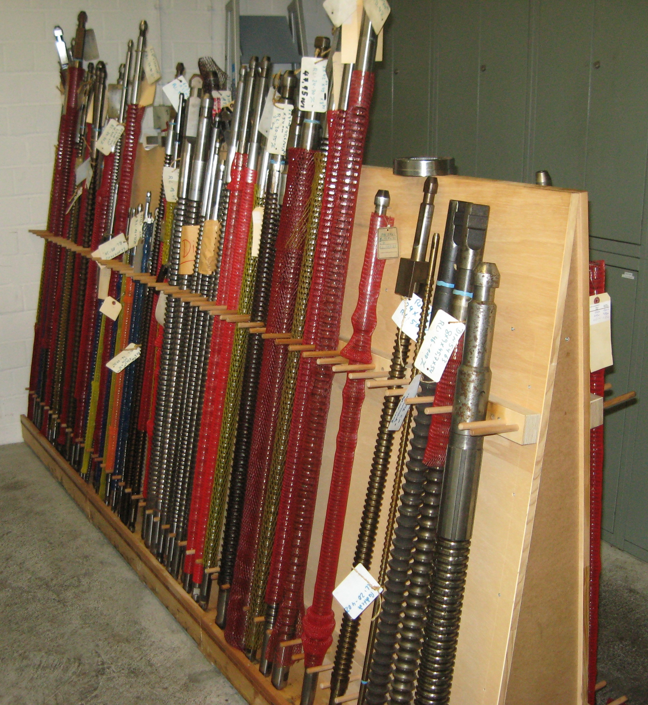 broach tool stock